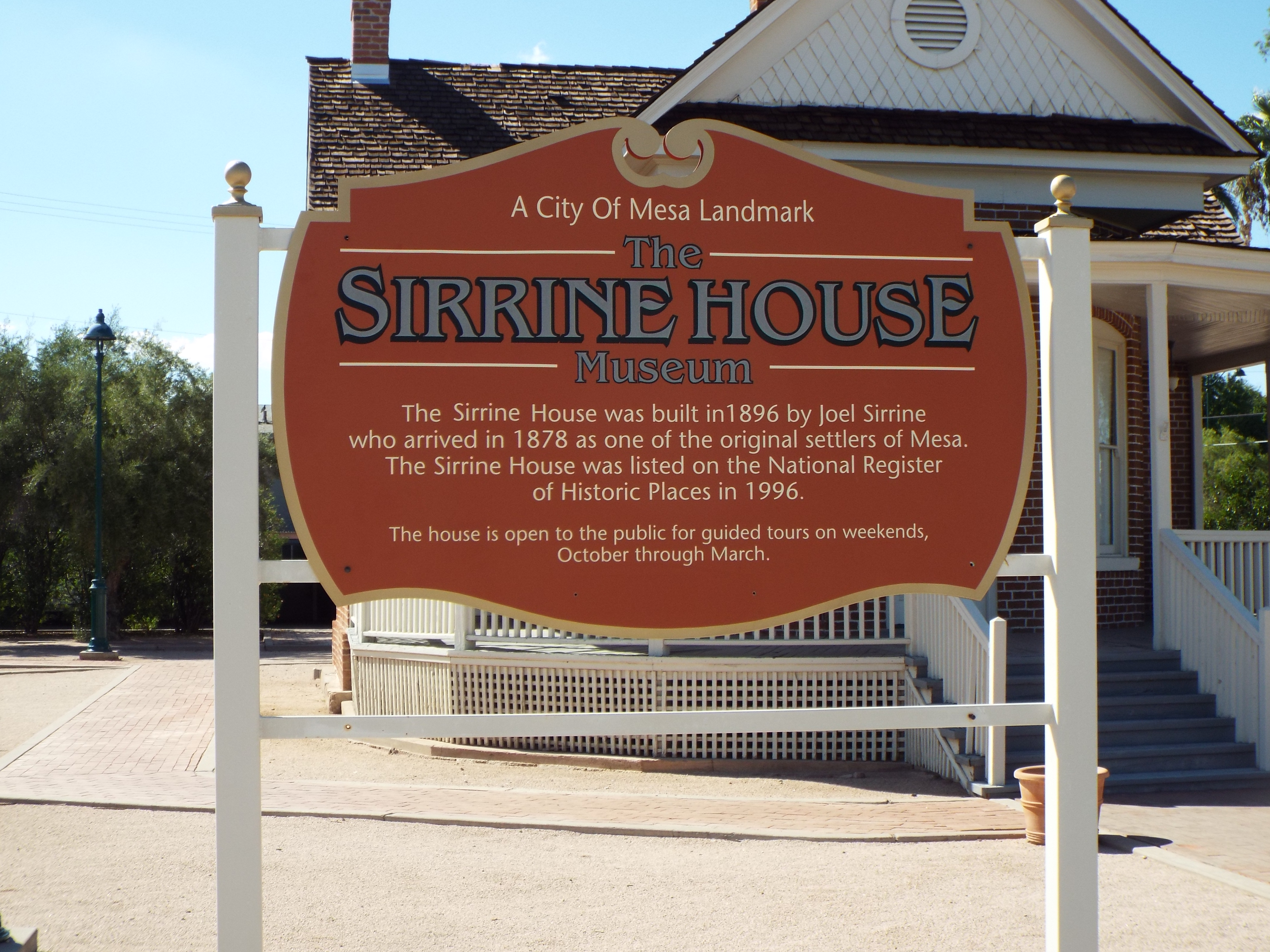 Historic Sirrine House landmark sign in Mesa, AZ